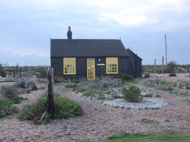 Prospect Cottage, Dungeness The former home of the film maker Derek Jarman.